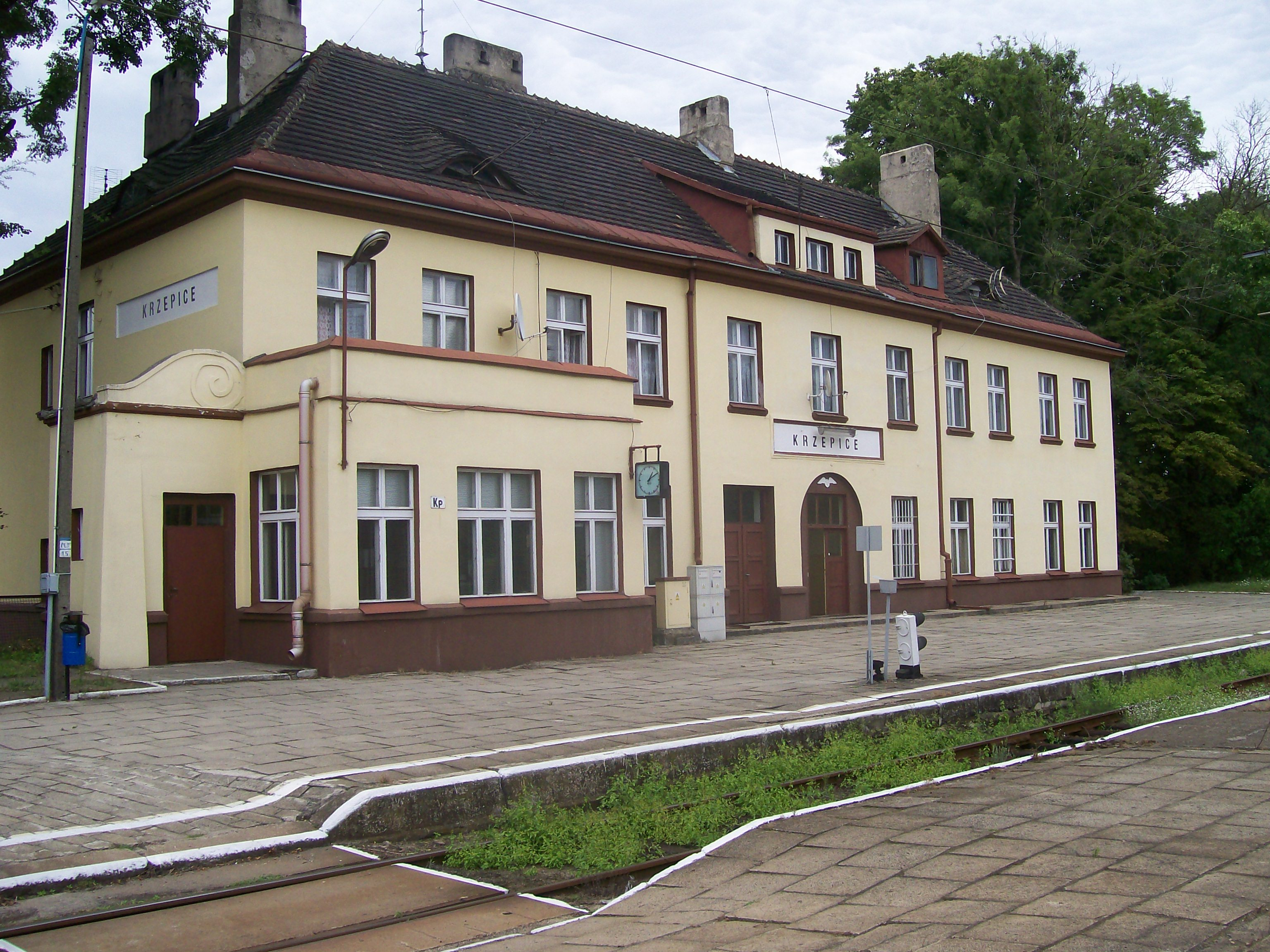 Railway station in Krzepice